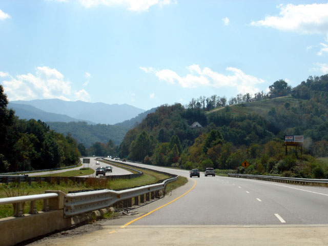 The Great Smoky Mountains Expressway driving through Waynesville. Photo by Matt Johnson.